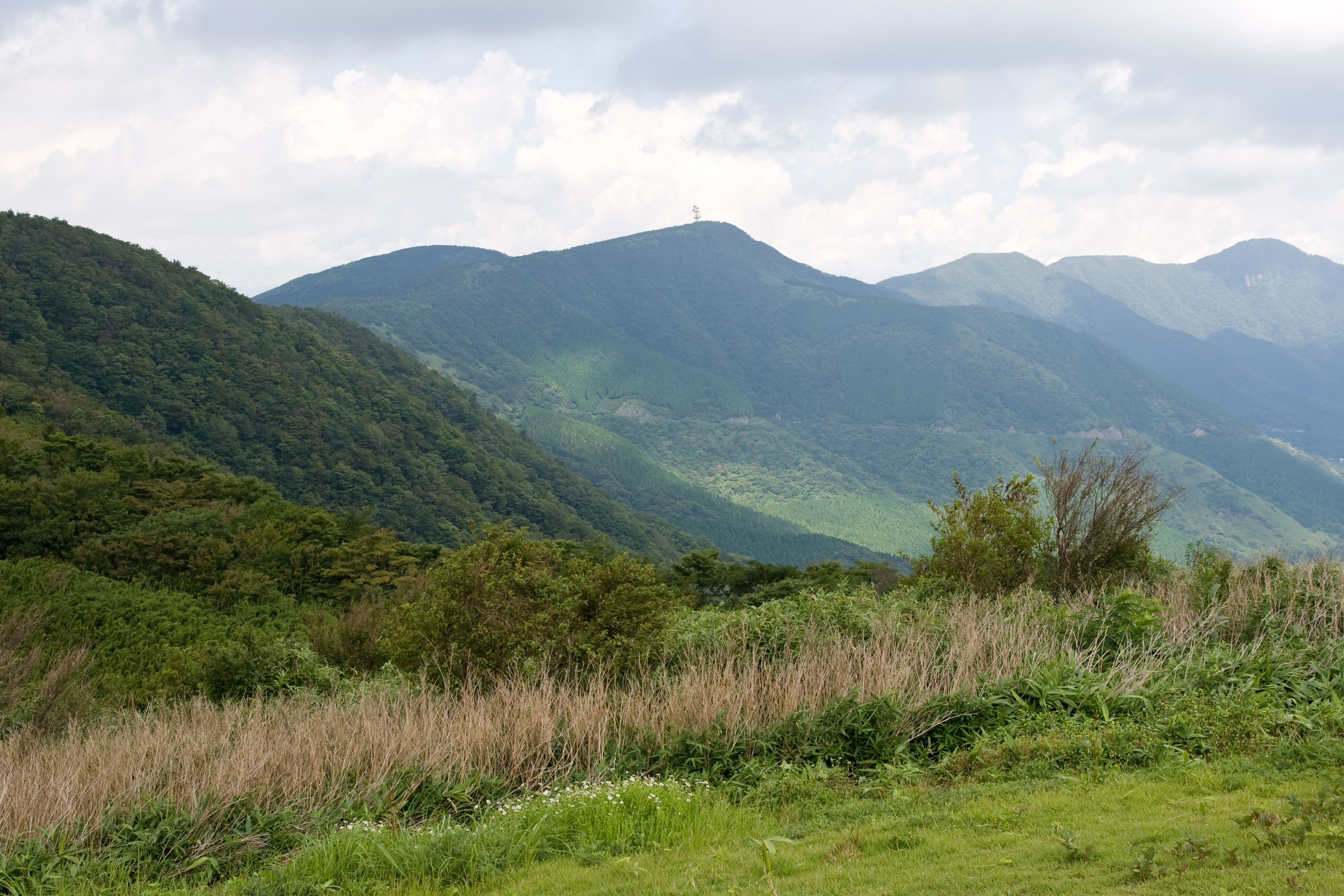 Mount Marudake in Hakone volcano, Kanagawa and Shizuoka Prefectures, Japan.